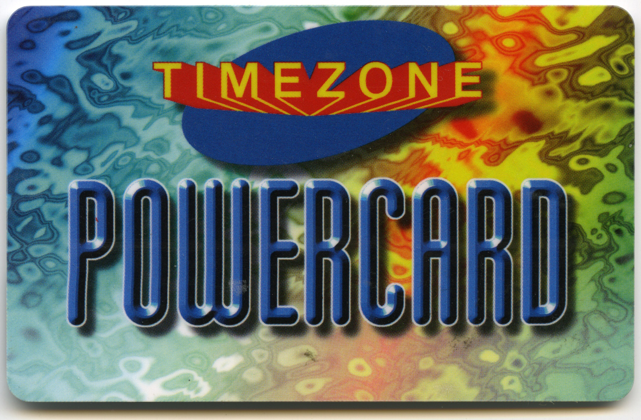 Timezone Card Australia